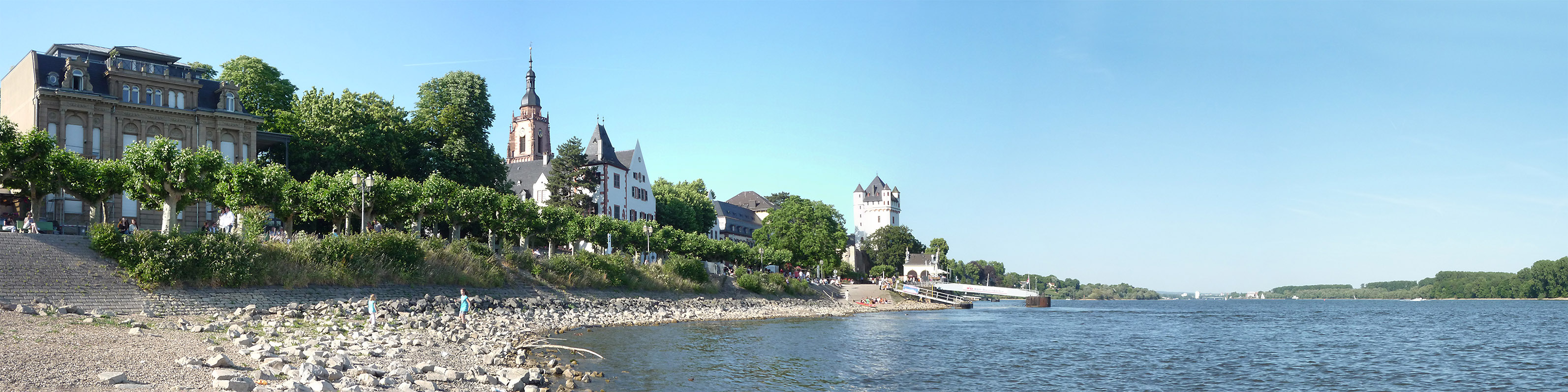 Panorama Eltville am Rhein im Rheingau, Hesse, Germany (P1090411-12-23-26-29-f3)